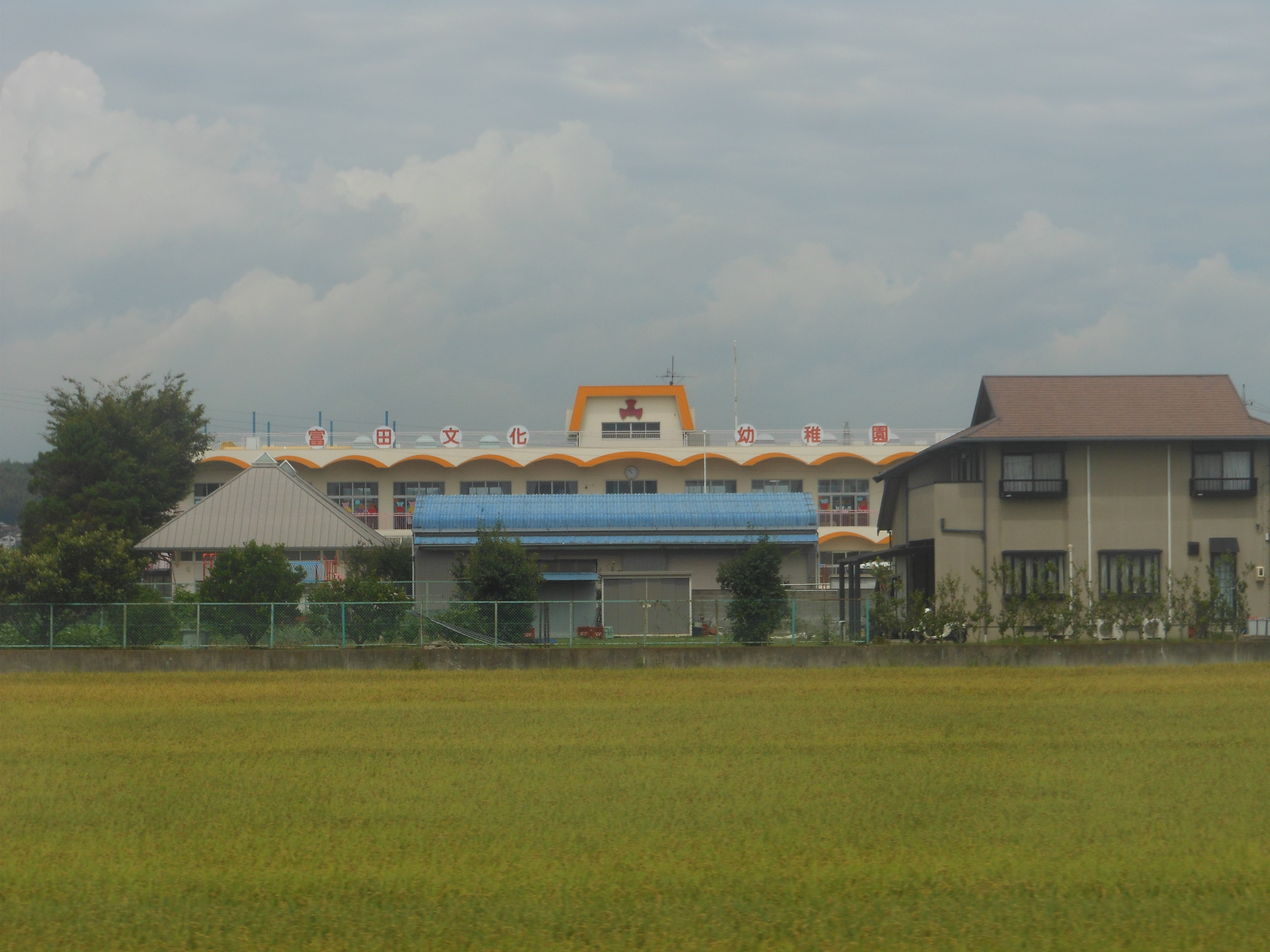 This is the Tomida Bunka Kindergarten in Yokkaichi, Mie, Japan.